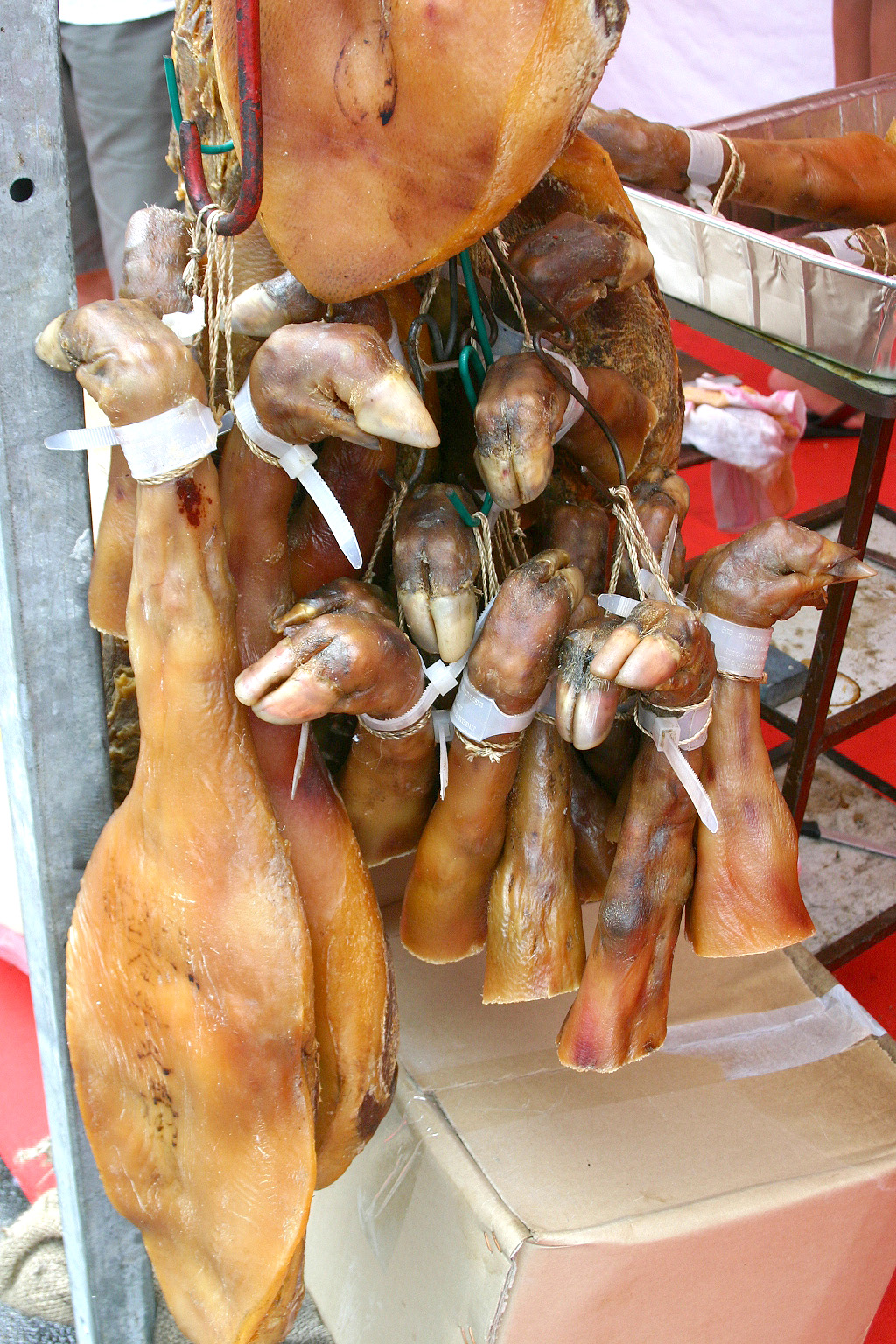 Dried pigs legs sold for Chinese New Year in Singapore